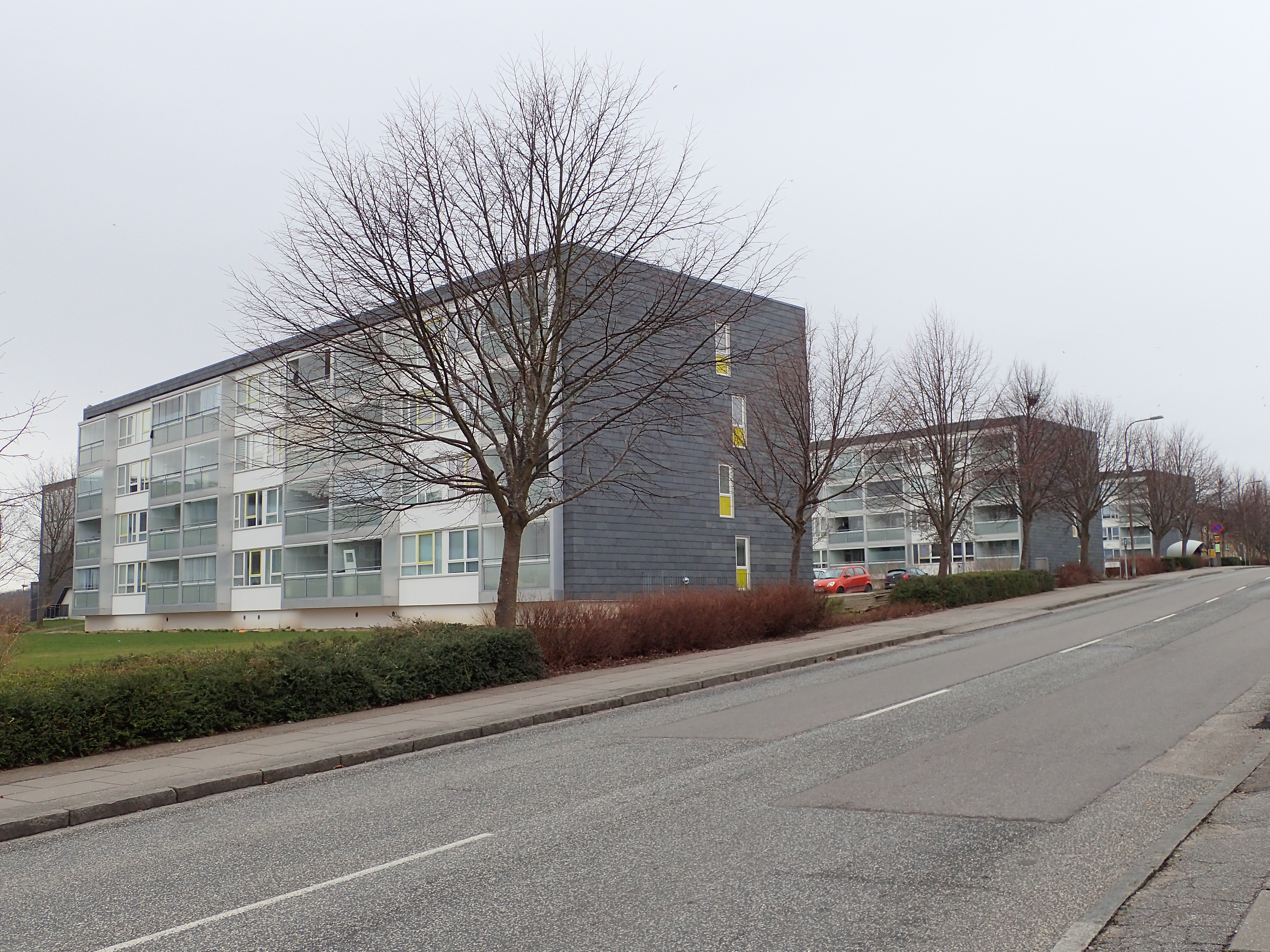 Skovgårdsparken